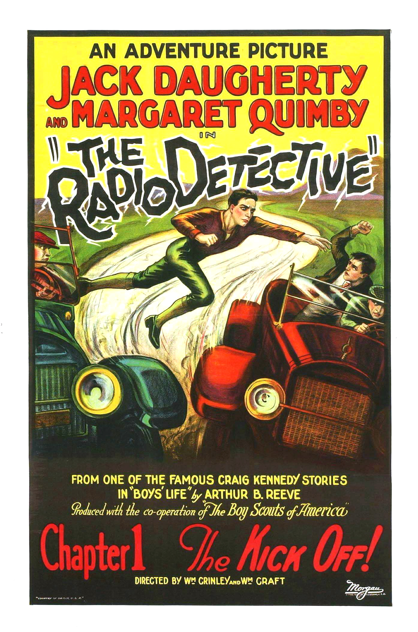 Poster for the 1926 film The Radio Detective. There are no copyright marks on the item. At lower left is Country of origin USA and at lower right is the Morgan Litho Company logo--they printed the poster.